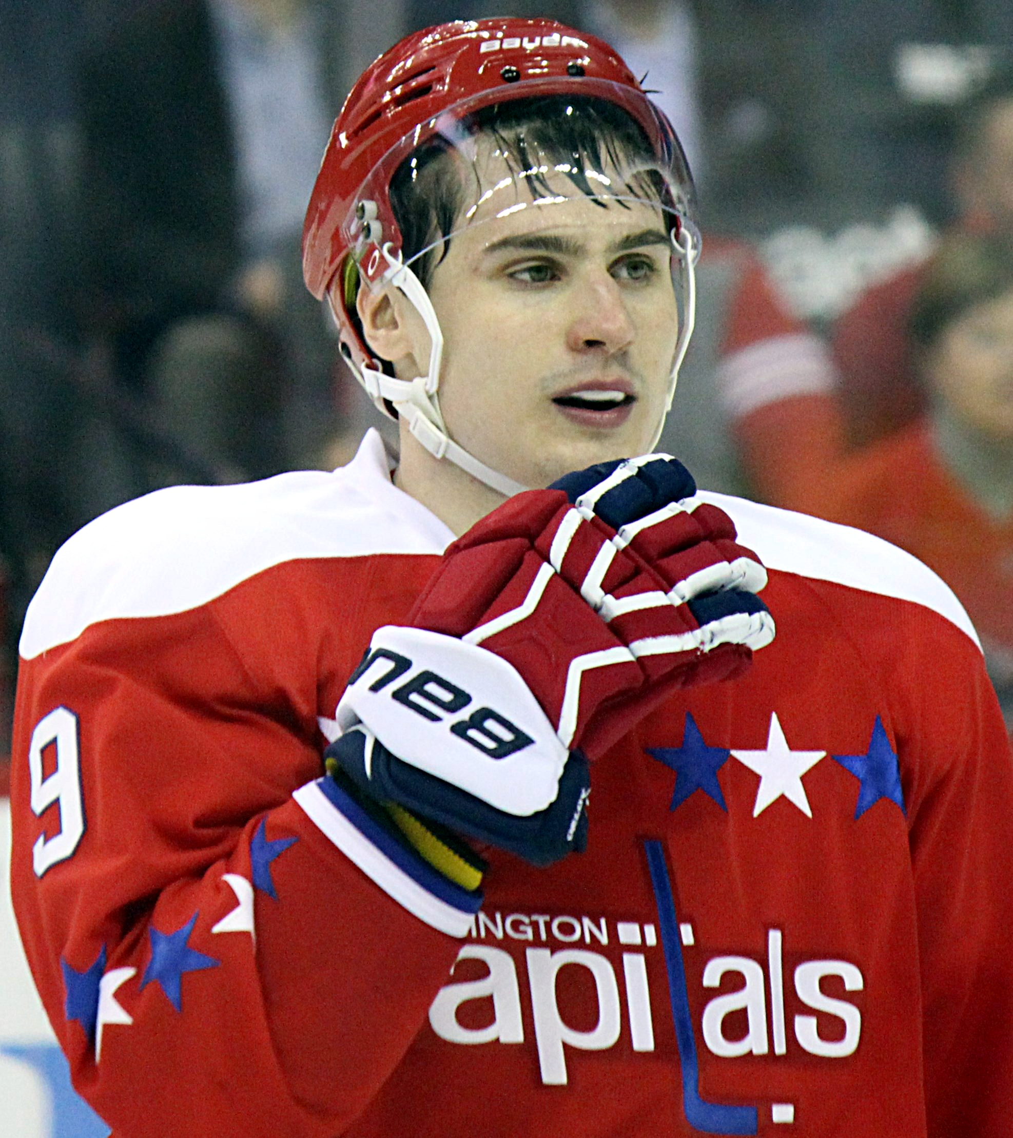 Washington Capitals defenseman Dmitry Orlov during a game against the Pittsburgh Penguins, Thursday, April 28, 2016, at Verizon Center in Washington, D.C.